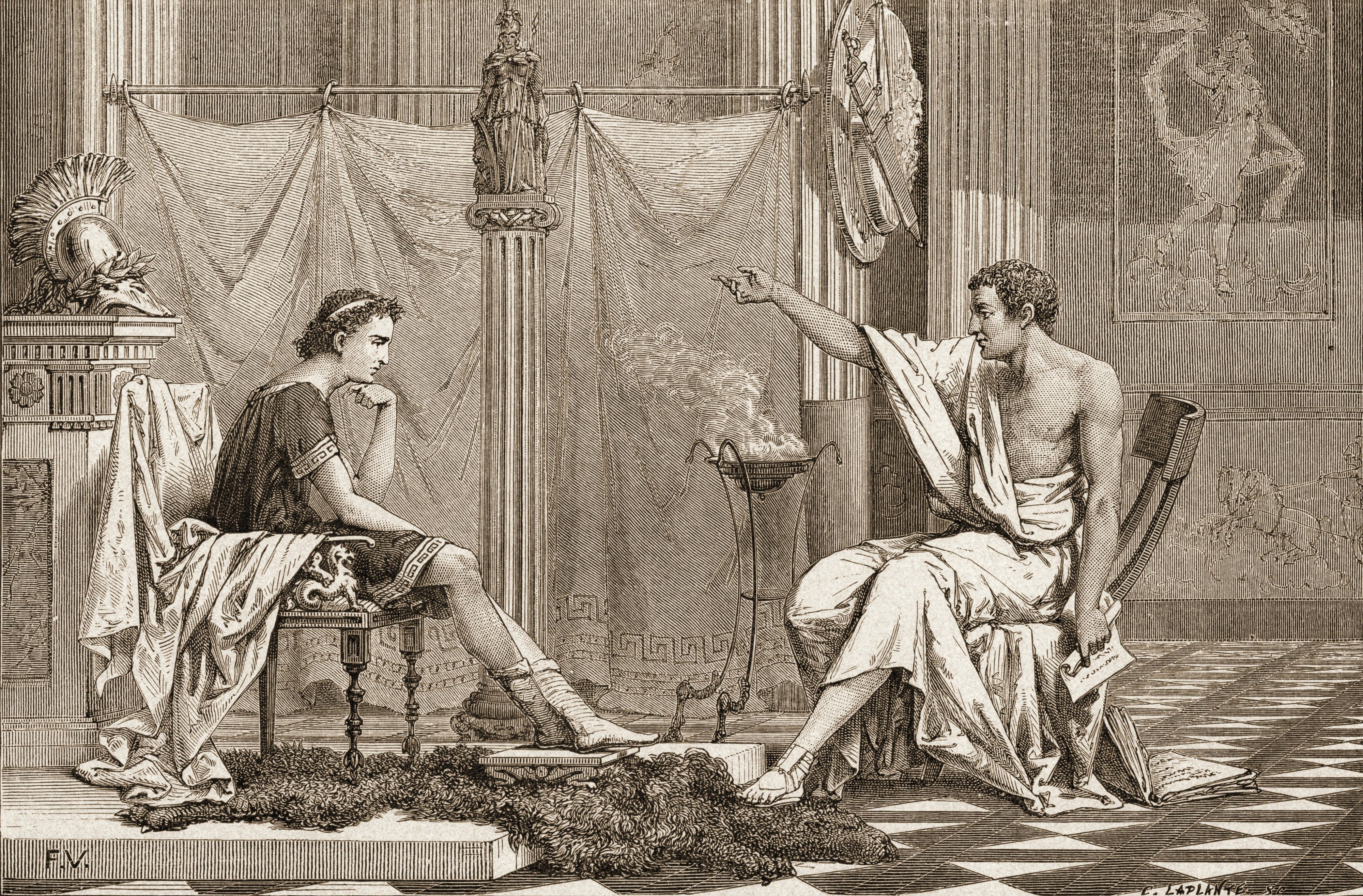 Education d'Alexandre par Aristote, engraving by Charles Laplante, a french engraver and illustrator (dead in 1903), first publish in the book of Louis Figuier, Vie des savants illustres - Savants de l'antiquité (tome 1), Paris, 1866, pages 134-135.